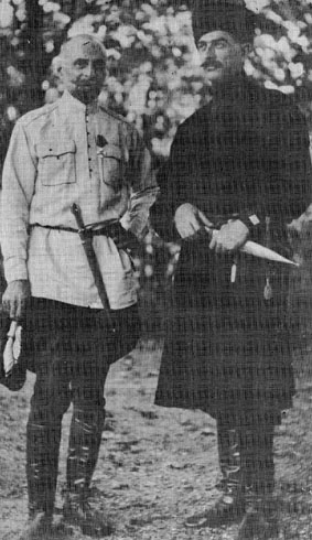 Colonel Kakutsa Cholokashvili and General Giorgi Kvinitadze, Georgia Pre-1921 image, unknown author